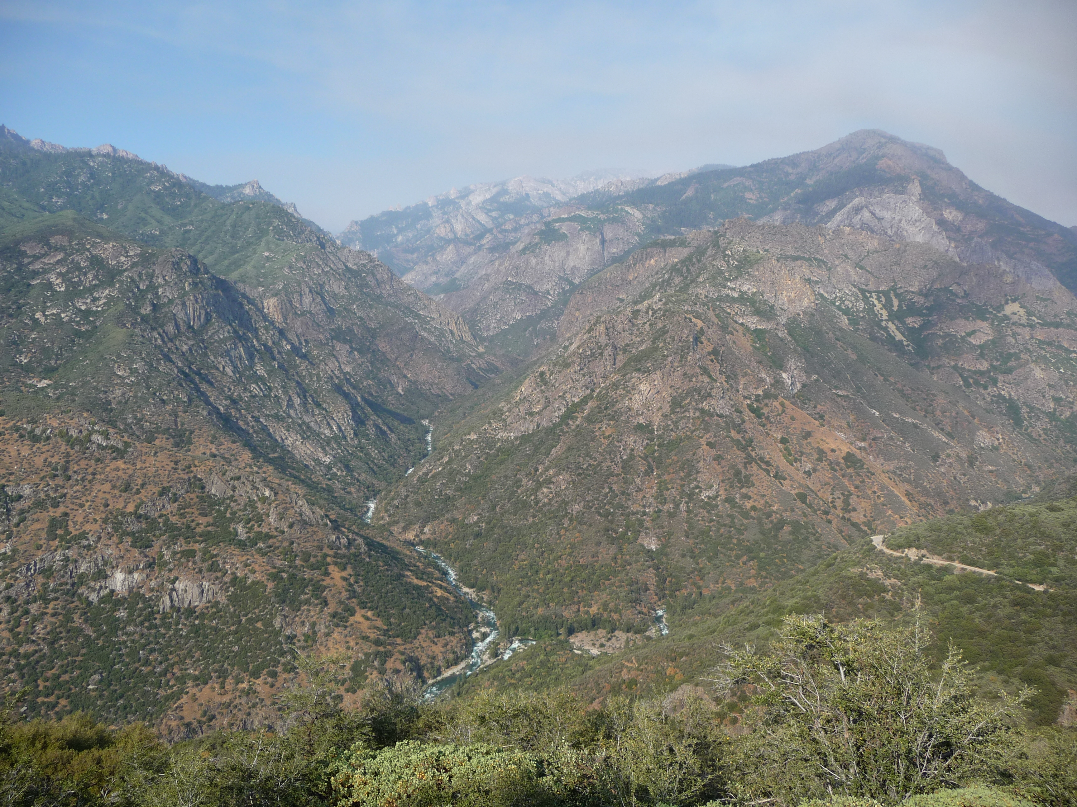 Kings Canyon National Park - Kings Canyon from near Junction View